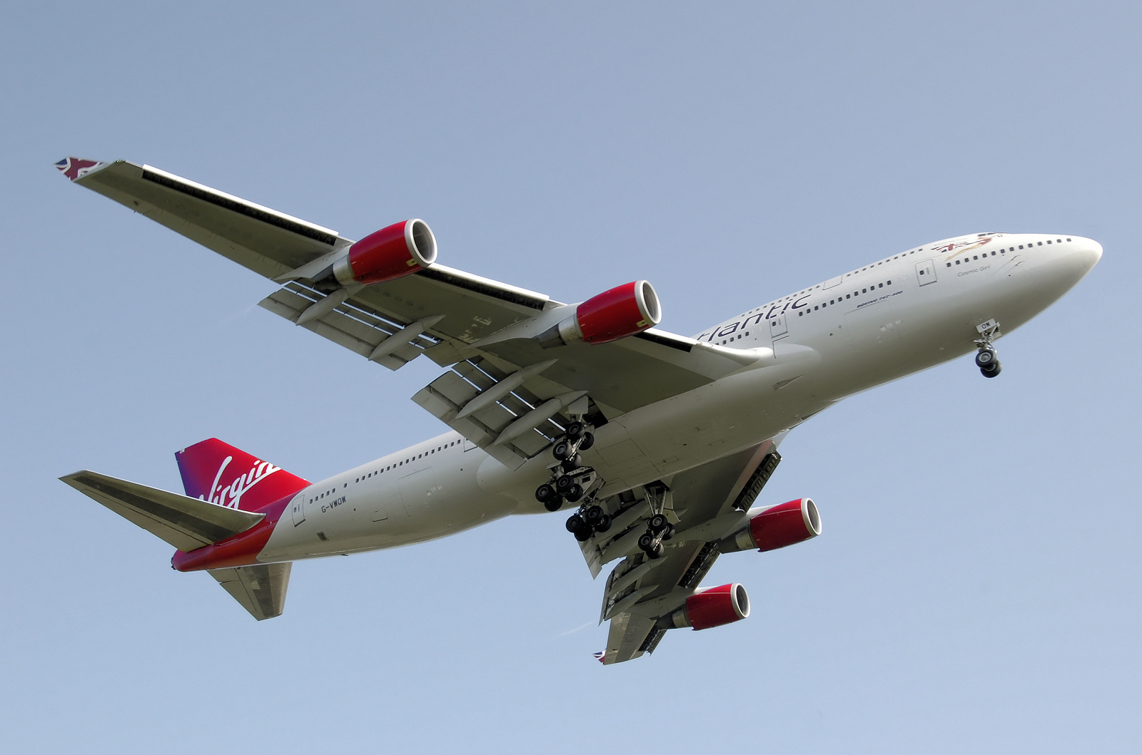 Virgin Atlantic Airways Boeing 747-400 (G-VWOW, Cosmic Girl) lands at London Heathrow Airport, England.